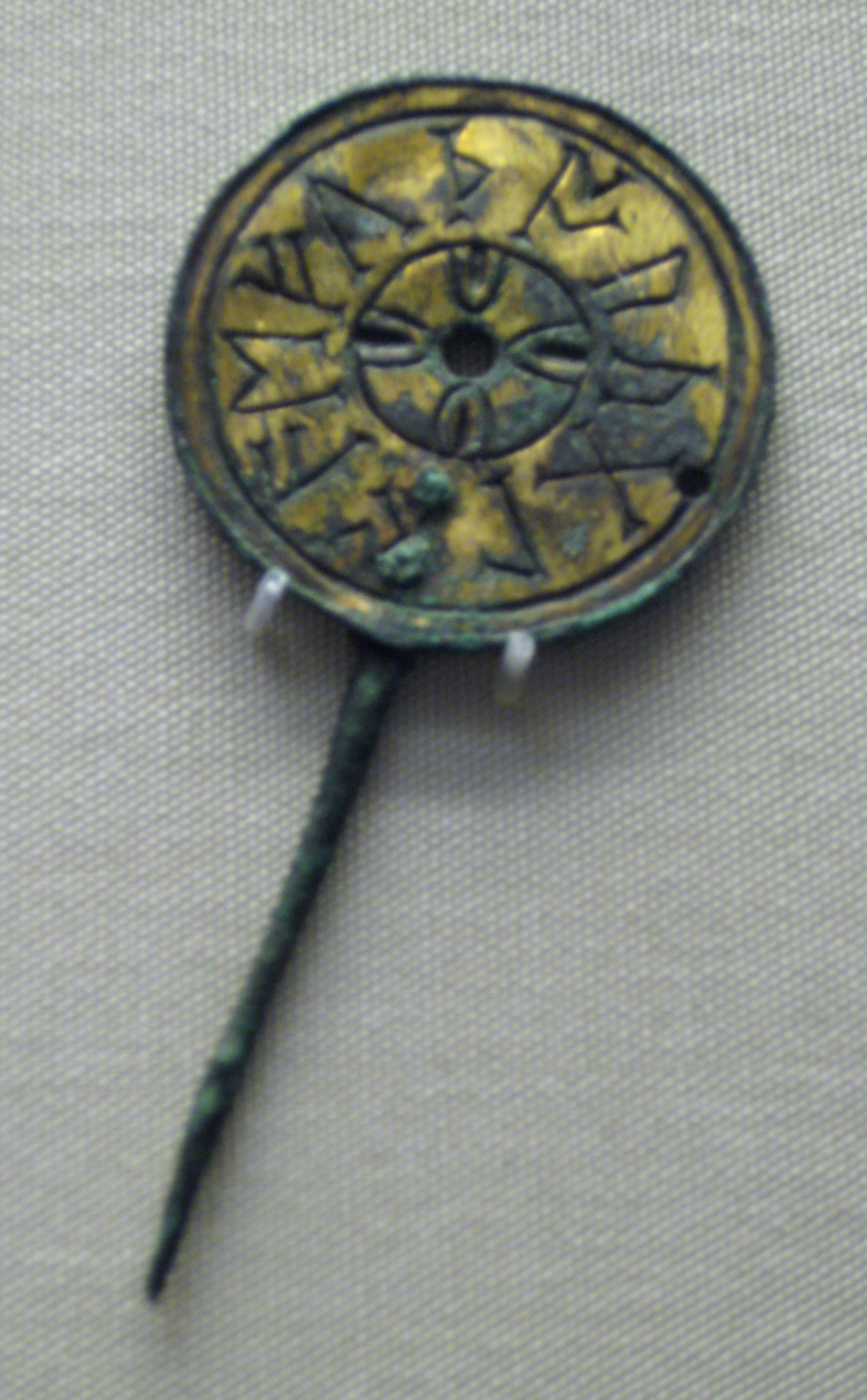 Copper alloy gilded disc-headed pin inscribed with eleven runic letters (ᚠᚢᚦᚩᚱᚳᚷᛚᚪᚫᛖ).